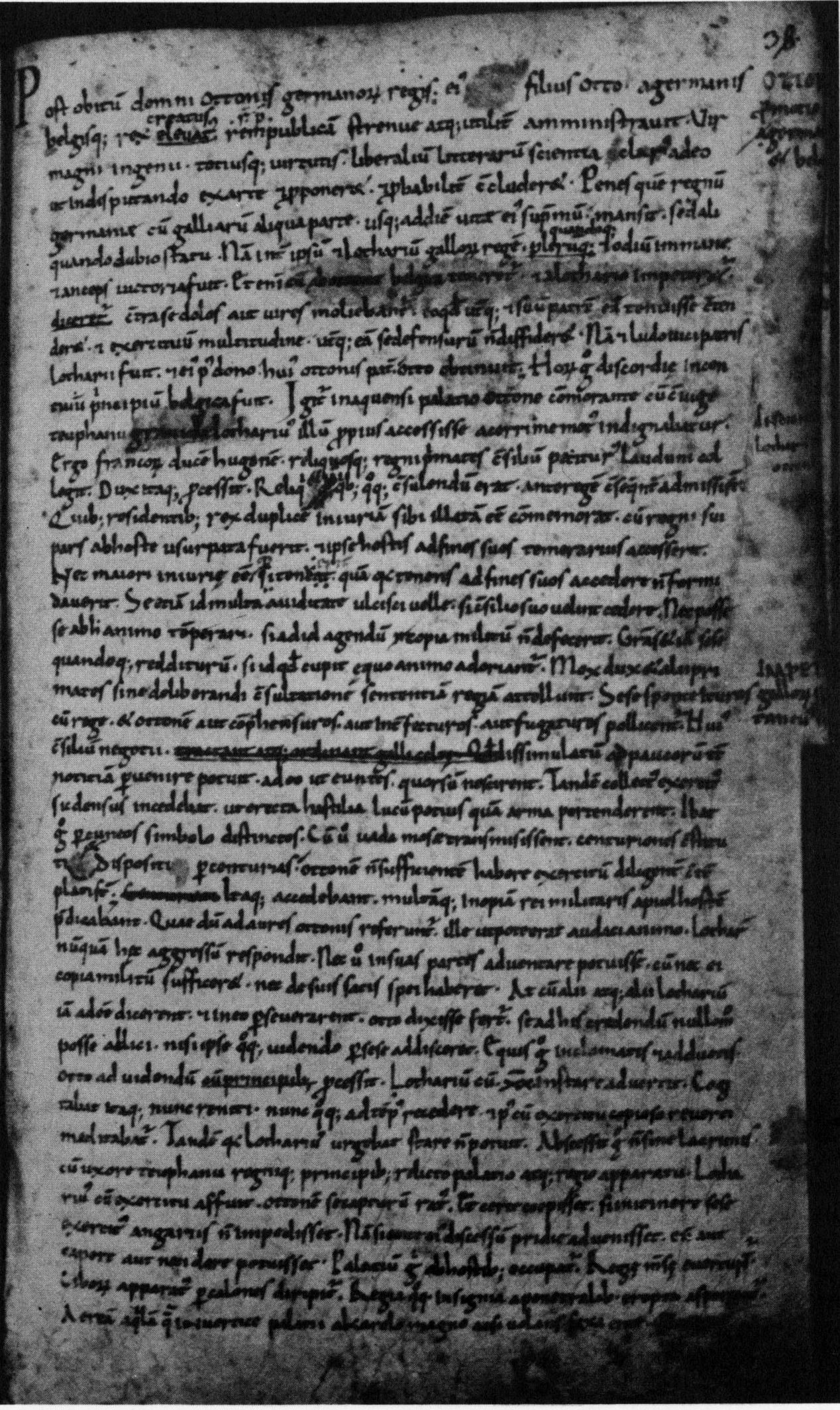 Autograph of the Historiae of Richerus. Bamberg State Library, Hist. 5, fol. 38r.